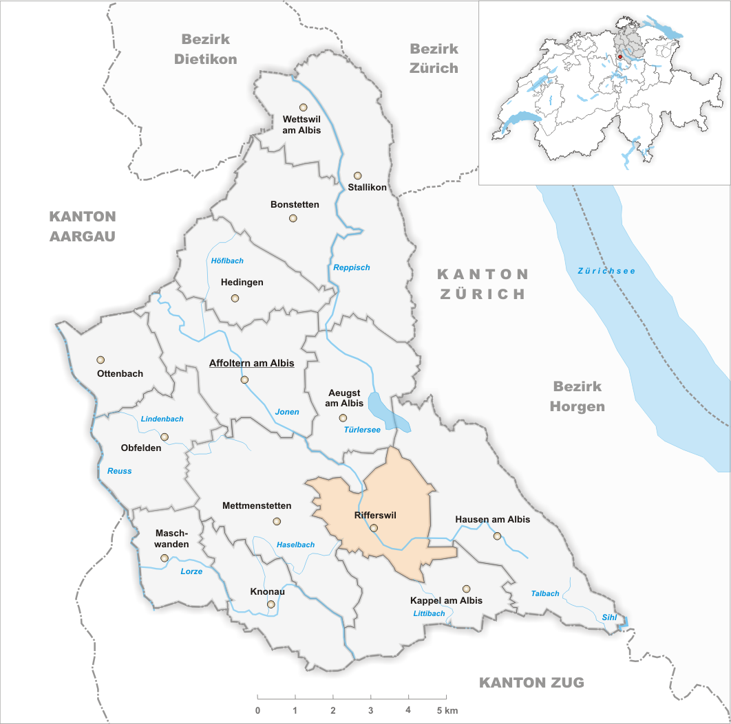 Municipality Rifferswil